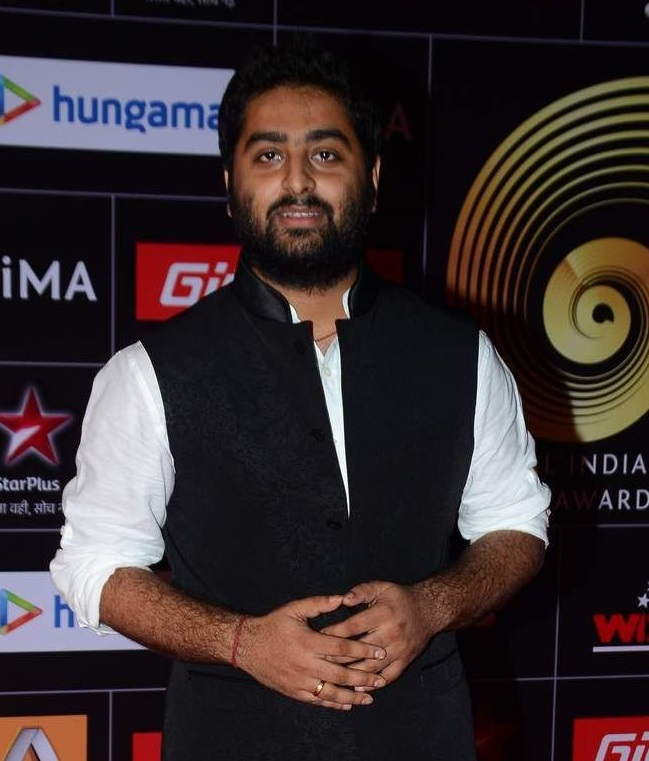 Arijit Singh at 5th GiMA Awards 2015